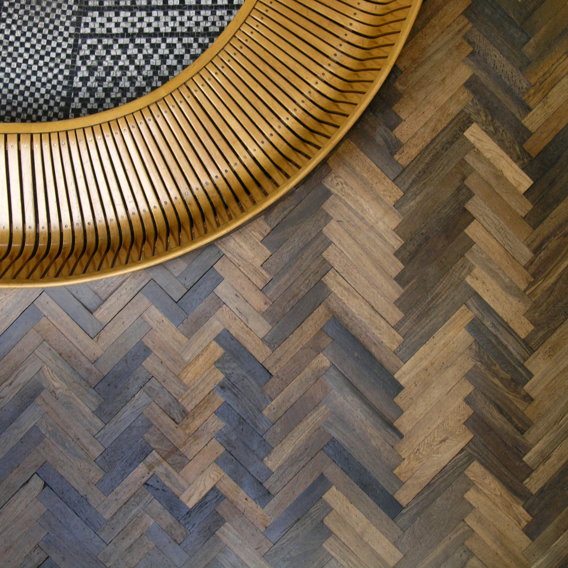 aarhus town hall, aarhus, denmark, 1937-1942. architects: arne jacobsen, 1902-1971, with erik møller, 1909-2002. the imprint of the council chamber on the town hall floor is edged by a beech bench, possibly designed by the young hans j. wegner who worked for jacobsen in the late 1930's before his personal breakthrough.